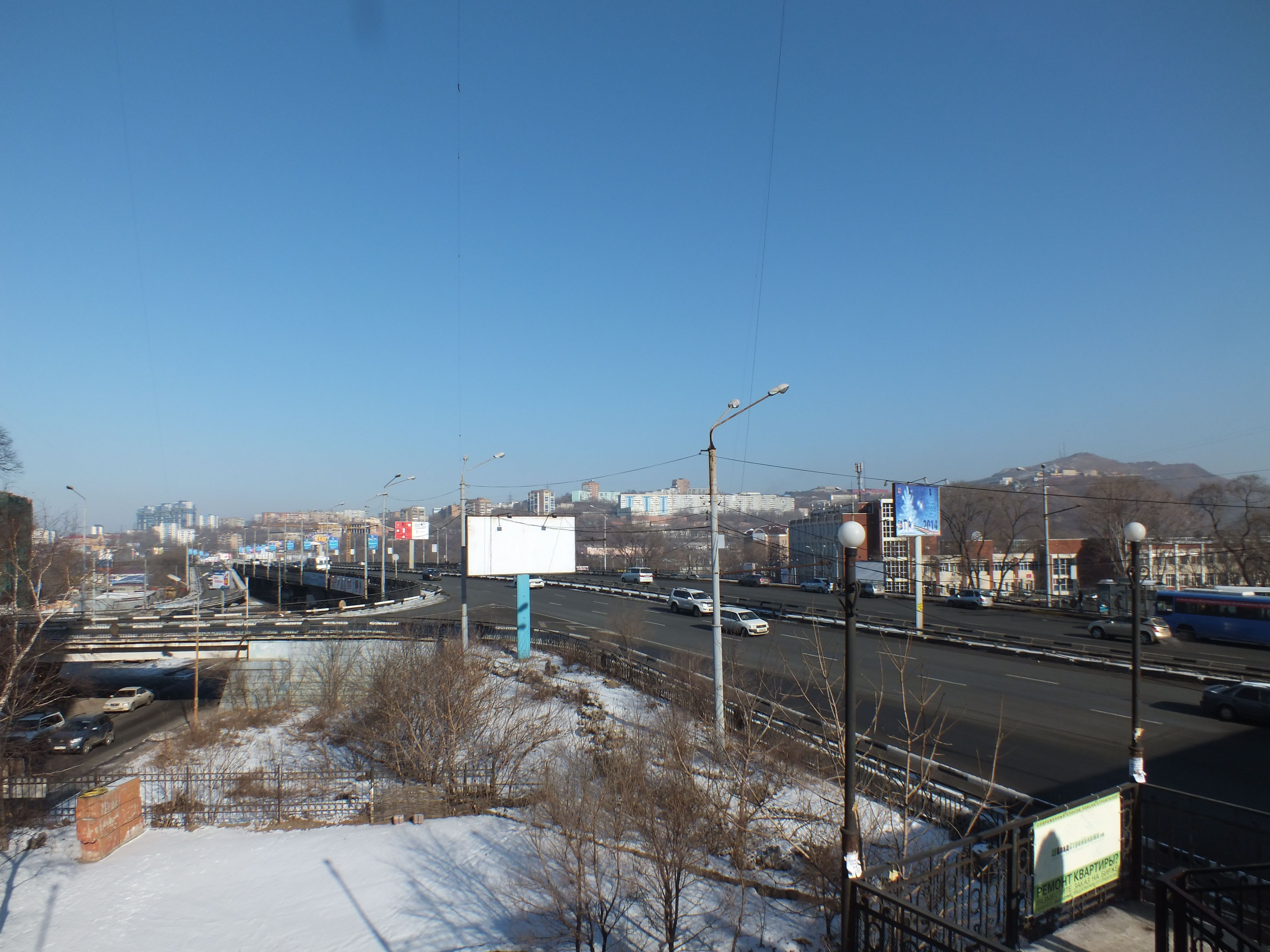 Vladivostok